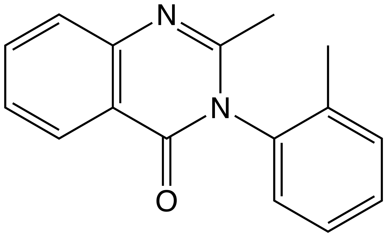 Methaqualone. This version is higher resolution.